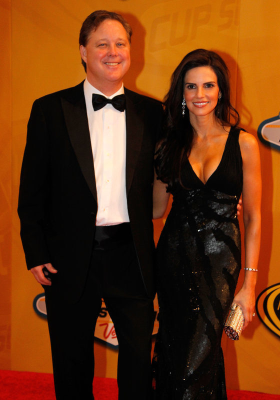 Brian and wife Amy France December 2012